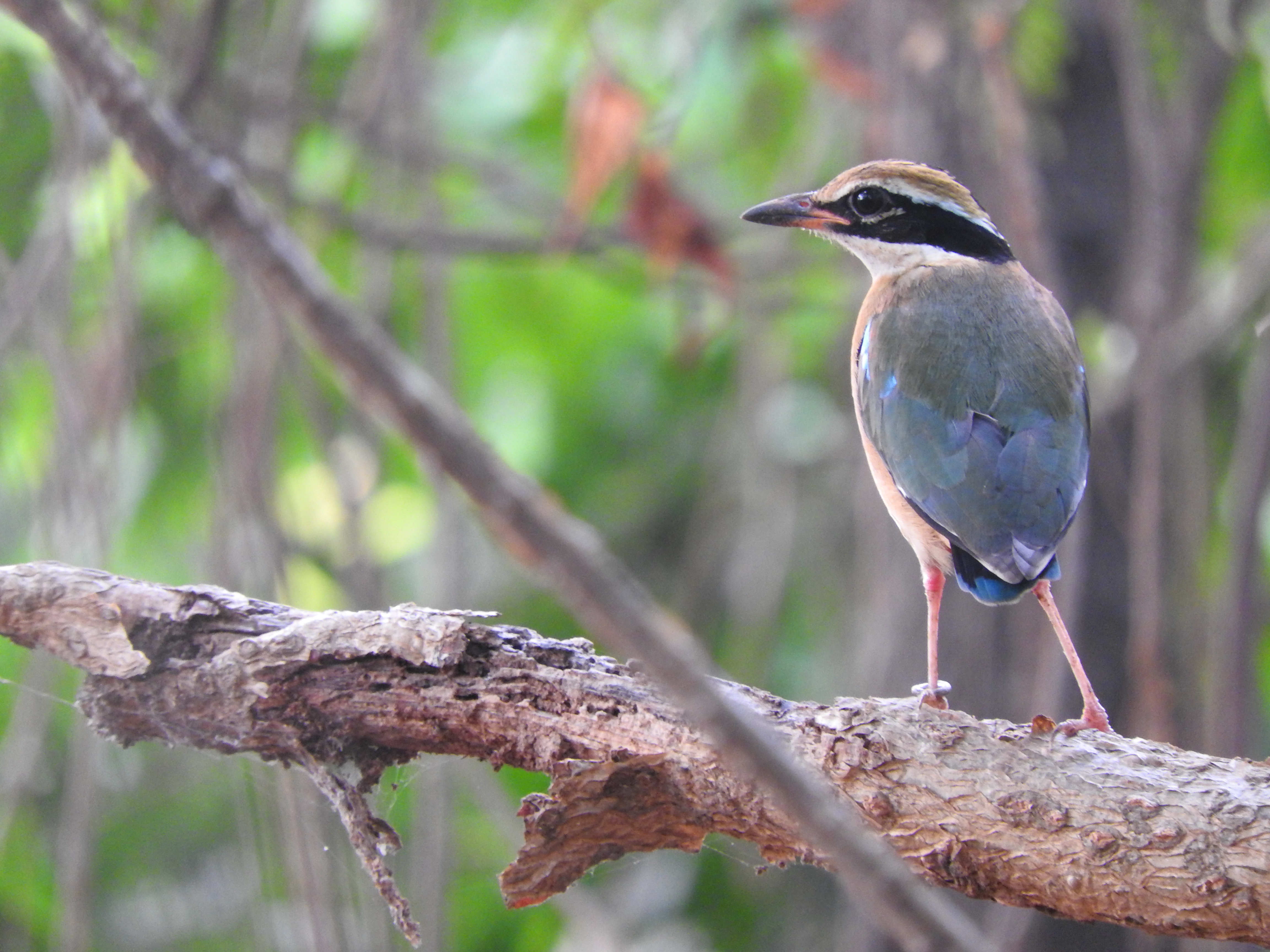 A tagged Indian pitta (see the tag in the left leg) seen in College of Engineering Guindy, Chennai